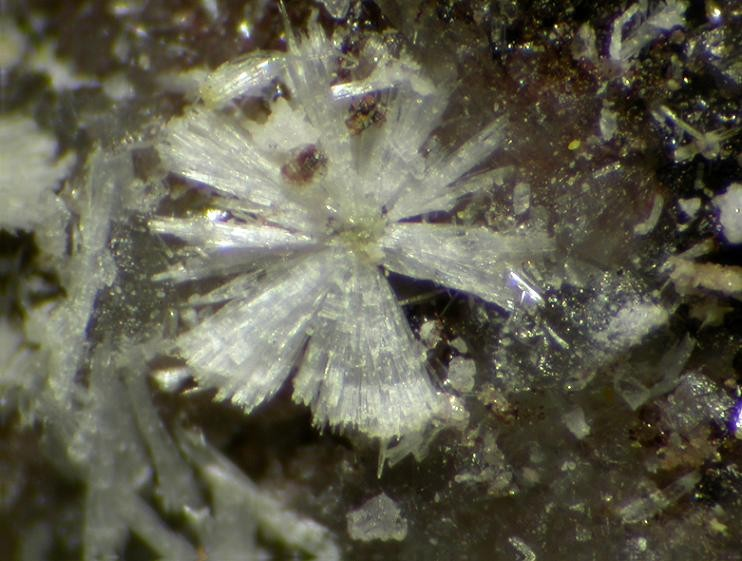 Maricopaite Locality: Moon Anchor Mine (Aggravation Mine; East Vulture Mining Co. Mine), Hummingbird Spring, Osborn District, Big Horn Mts, Maricopa Co., Arizona, USA Field of view 4 mm. Specimen and photo Leon Hupperichs.